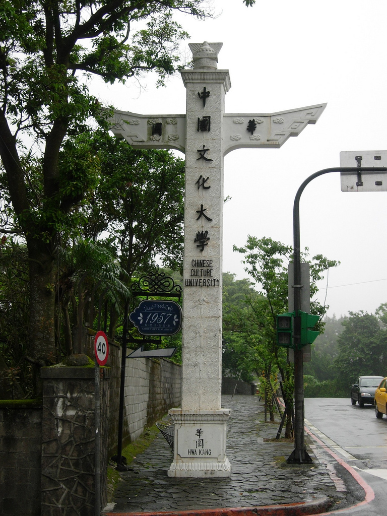 Gate of Chinese Culture University. Yangmingshan, Taipei, Taiwan